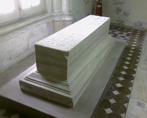 Anarkali's grave inside the tomb